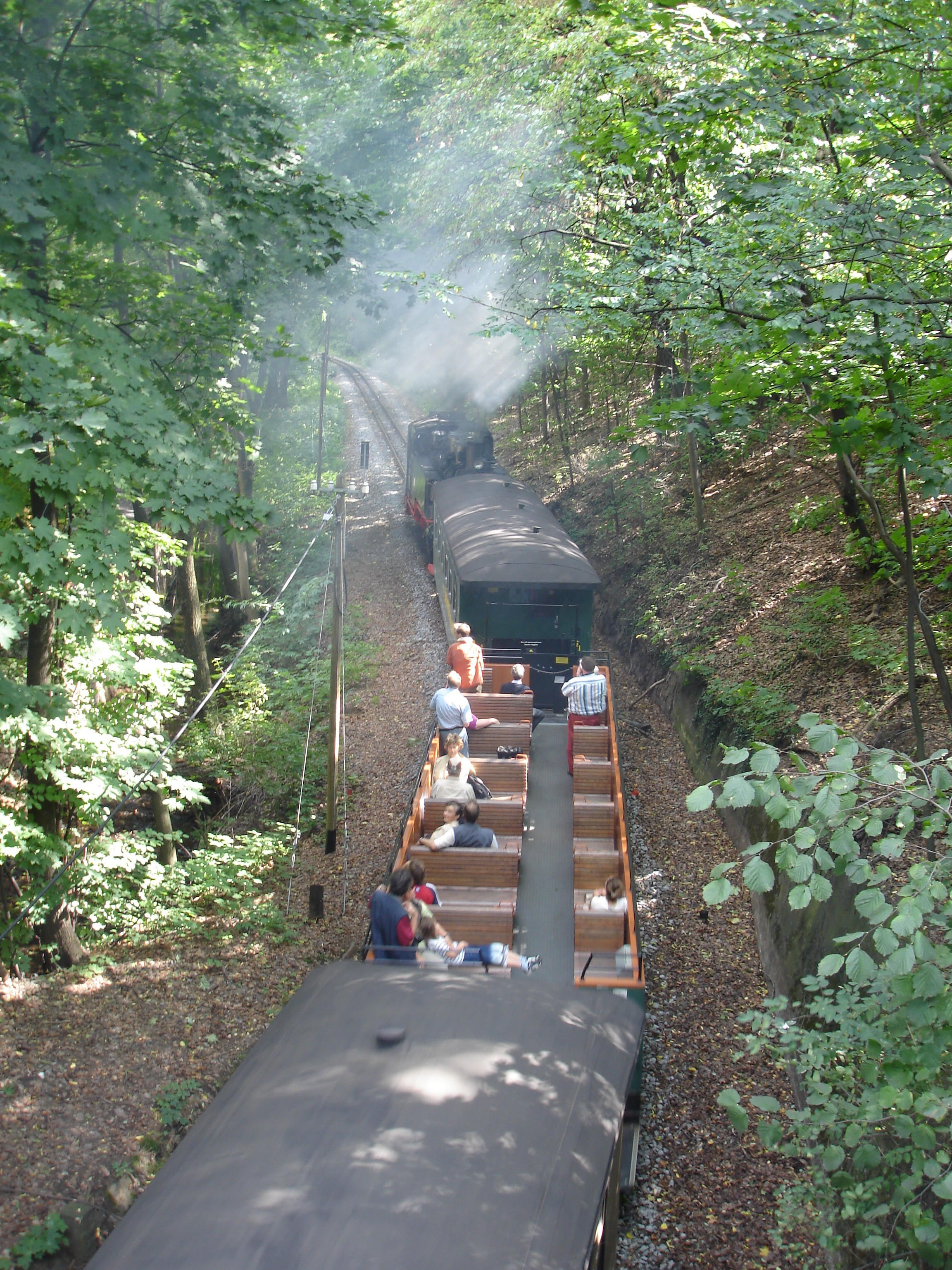 train of Lößnitzgrundbahn, Saxony, Germany